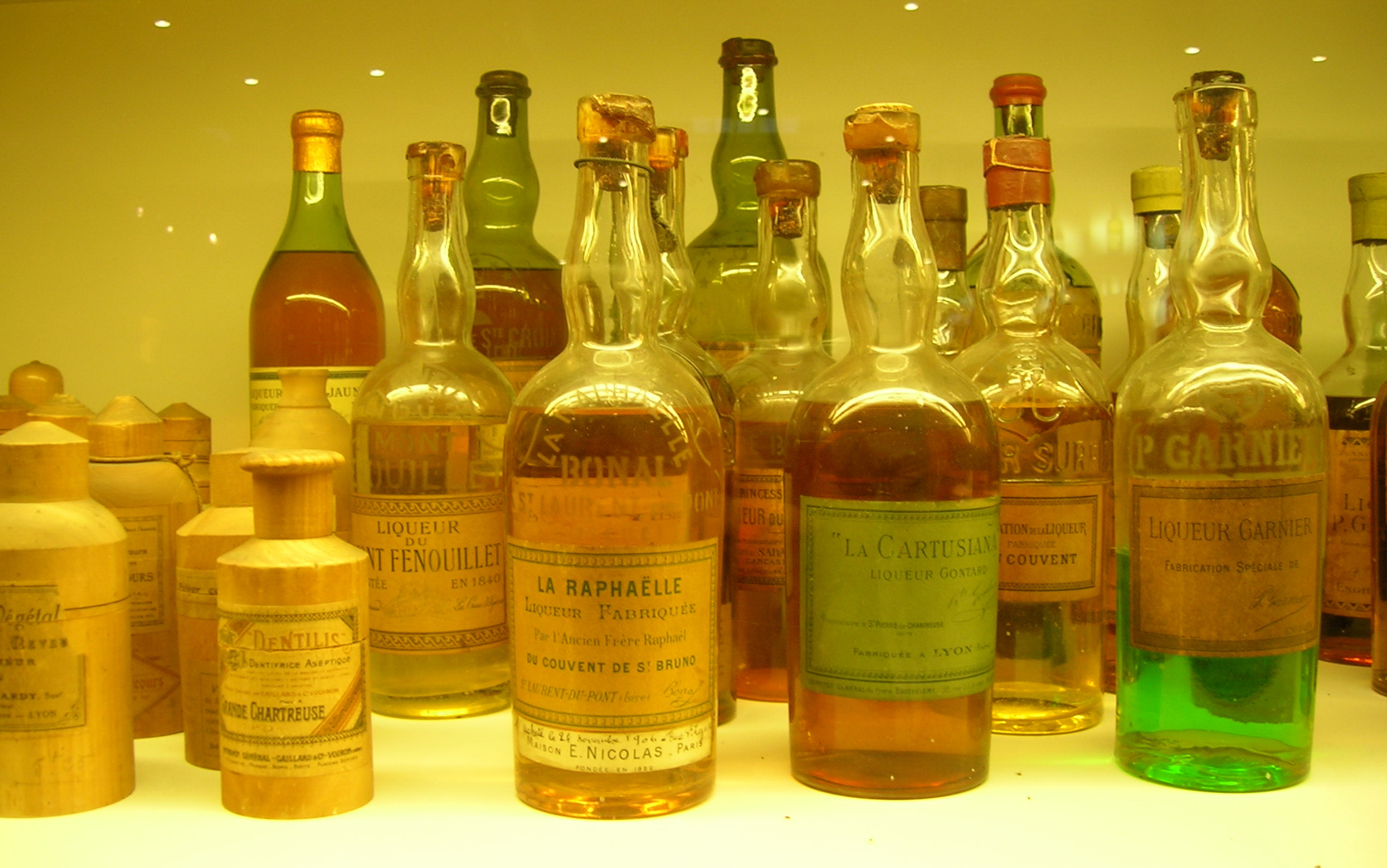 Counterfeits of Chartreuse liquors, exhibited in the museum of the Chartreuse cellars in Voiron (Isère, France).